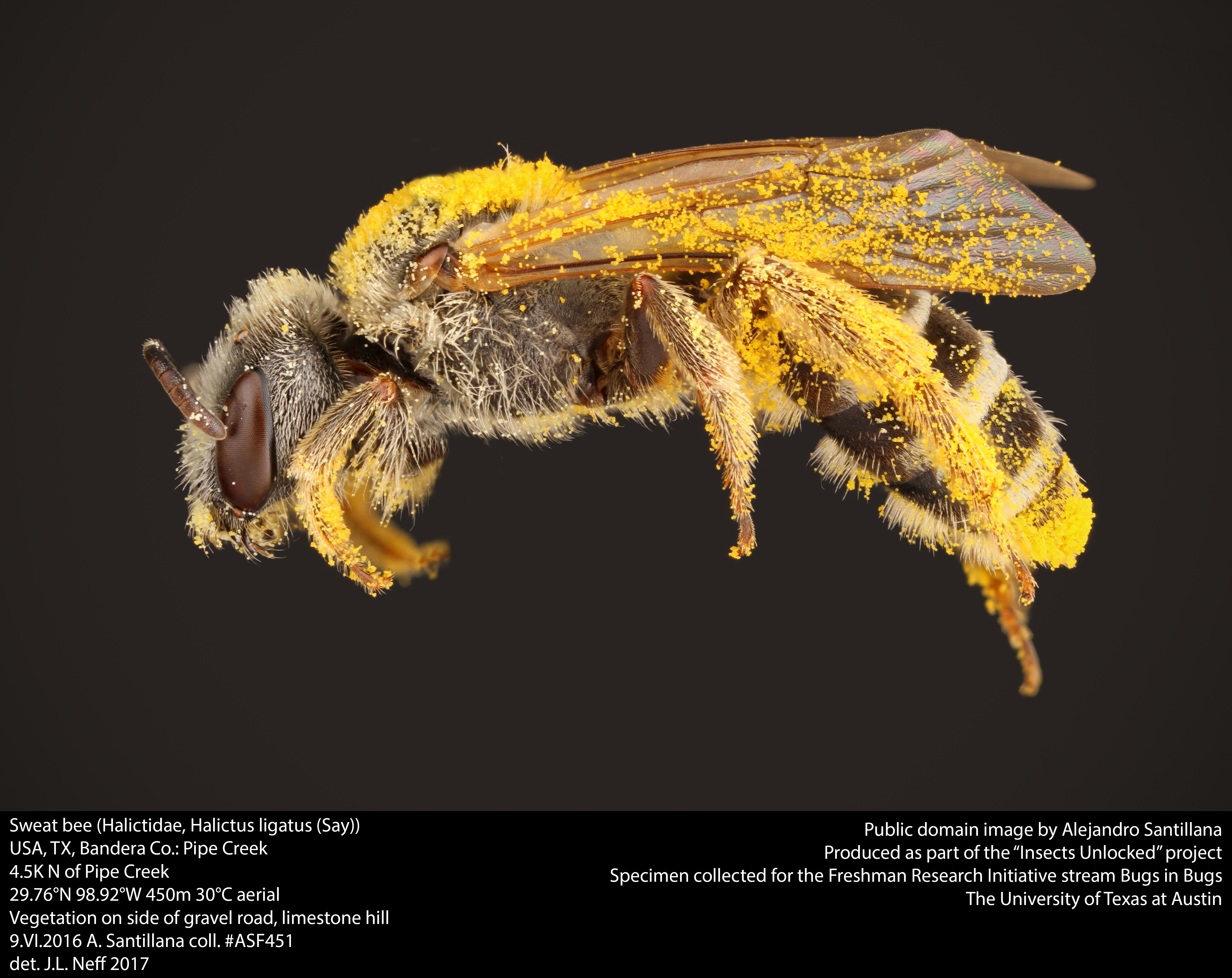 Sweat bee (Halictidae, Halictus ligatus (Say)) USA, TX, Bandera Co.: Pipe Creek 4.5K N of Pipe Creek 29.76°N 98.92°W 450m 30°C aerial Vegation on side of gravel road, limestone hill 9.VI.2016 A. Santillana coll. #ASF451 det. J.L. Neff 2017 2X Magnification